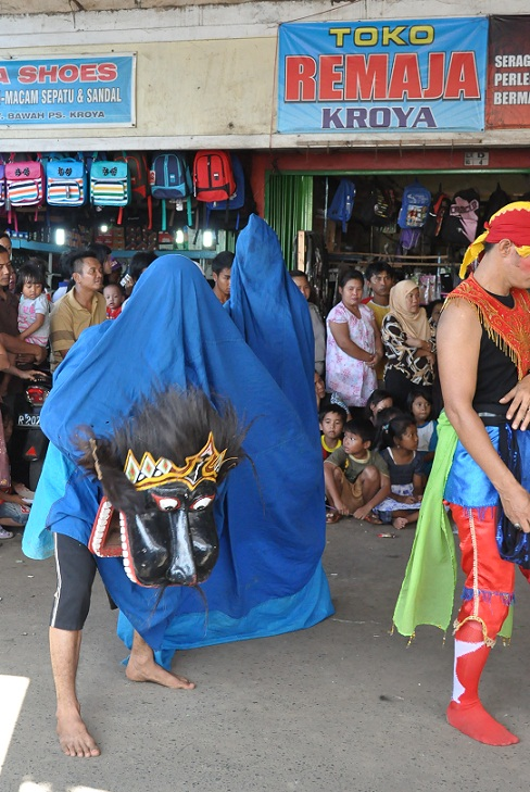 Barongan adalah sejenis topeng macan dalam pagelaran ebeg